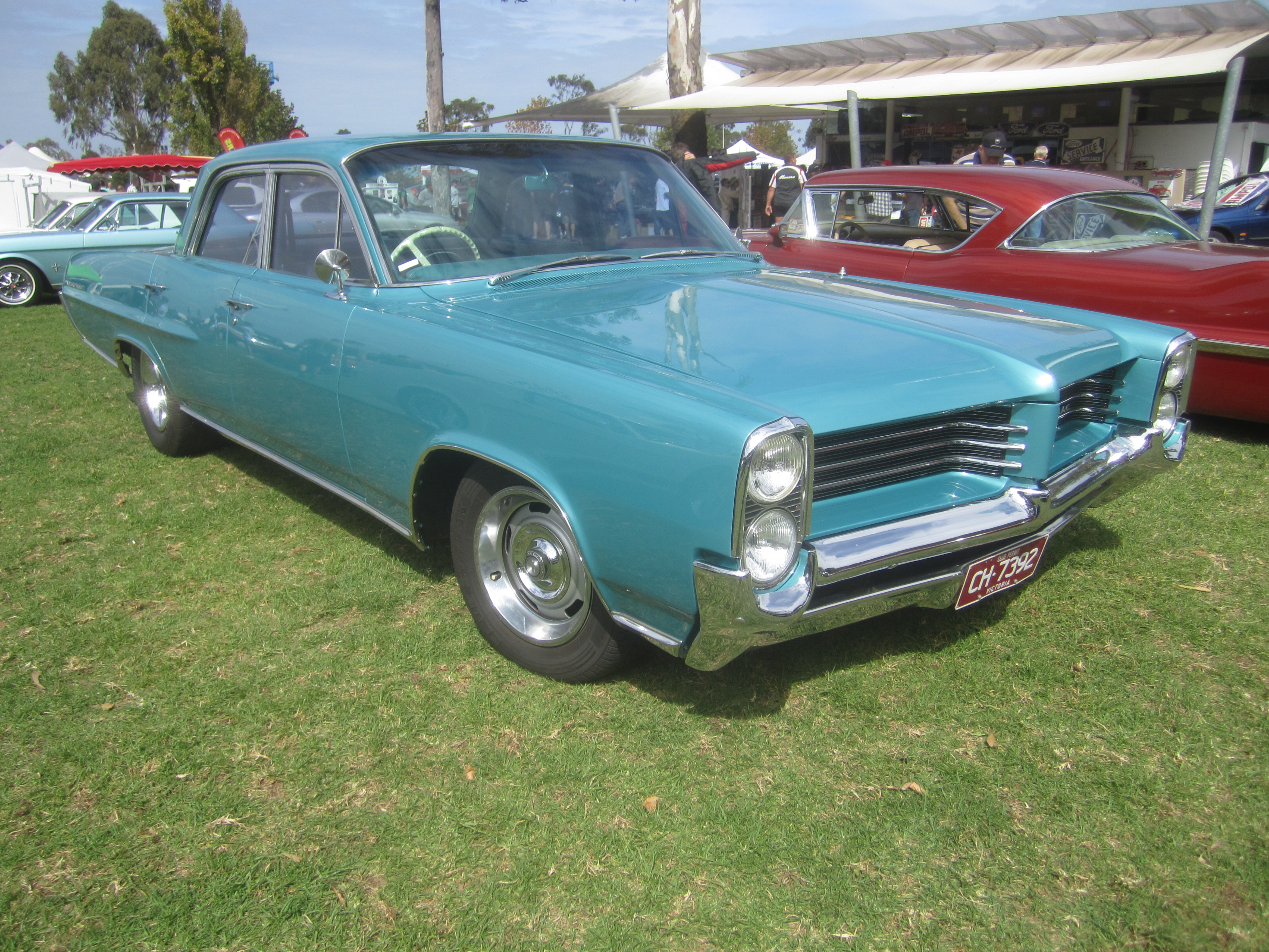 Base model for 1964 was the Catalina, mid spec, the Star Chief and top, the Bonneville, available in Sedan, Coupe, Convertible and Wagon. The 2nd generation Catalinas were built from 1961-64, a major facelift in 1963 saw a more squared off body and vertically stacked headlights , in line with other Pontiac models. In Canada it was called the Strato Chief.Engines; 389 or 421 cu in V8s